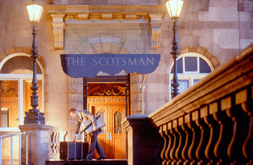 Entrance to The Scotsman Hotel